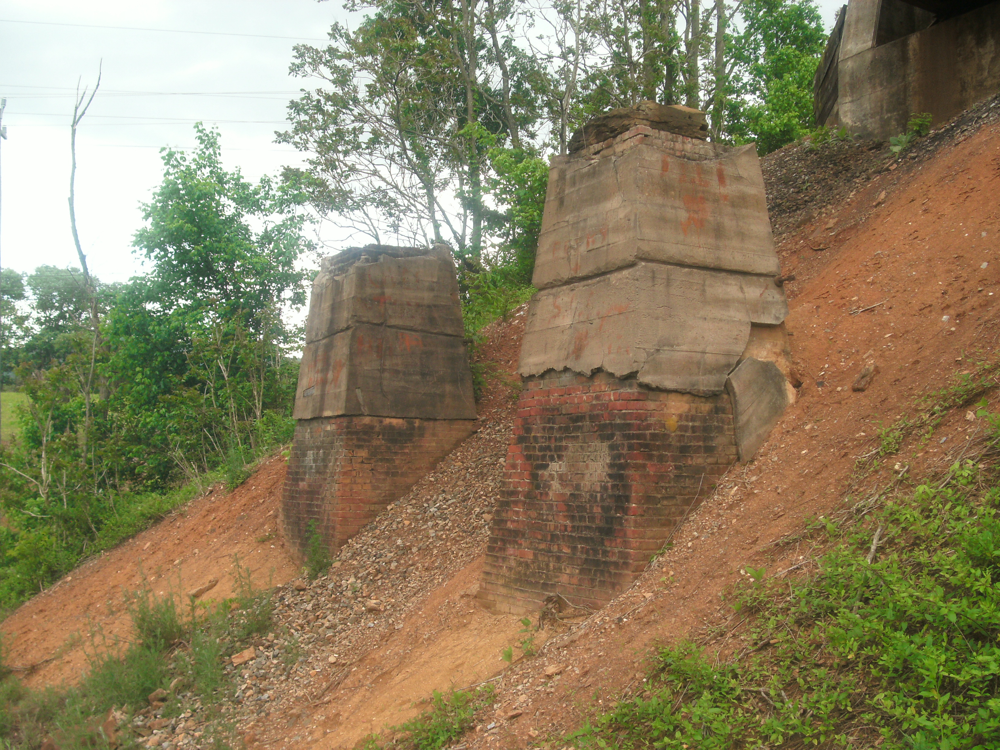 Taken by me in May, 2016 GEDSC DIGITAL CAMERA